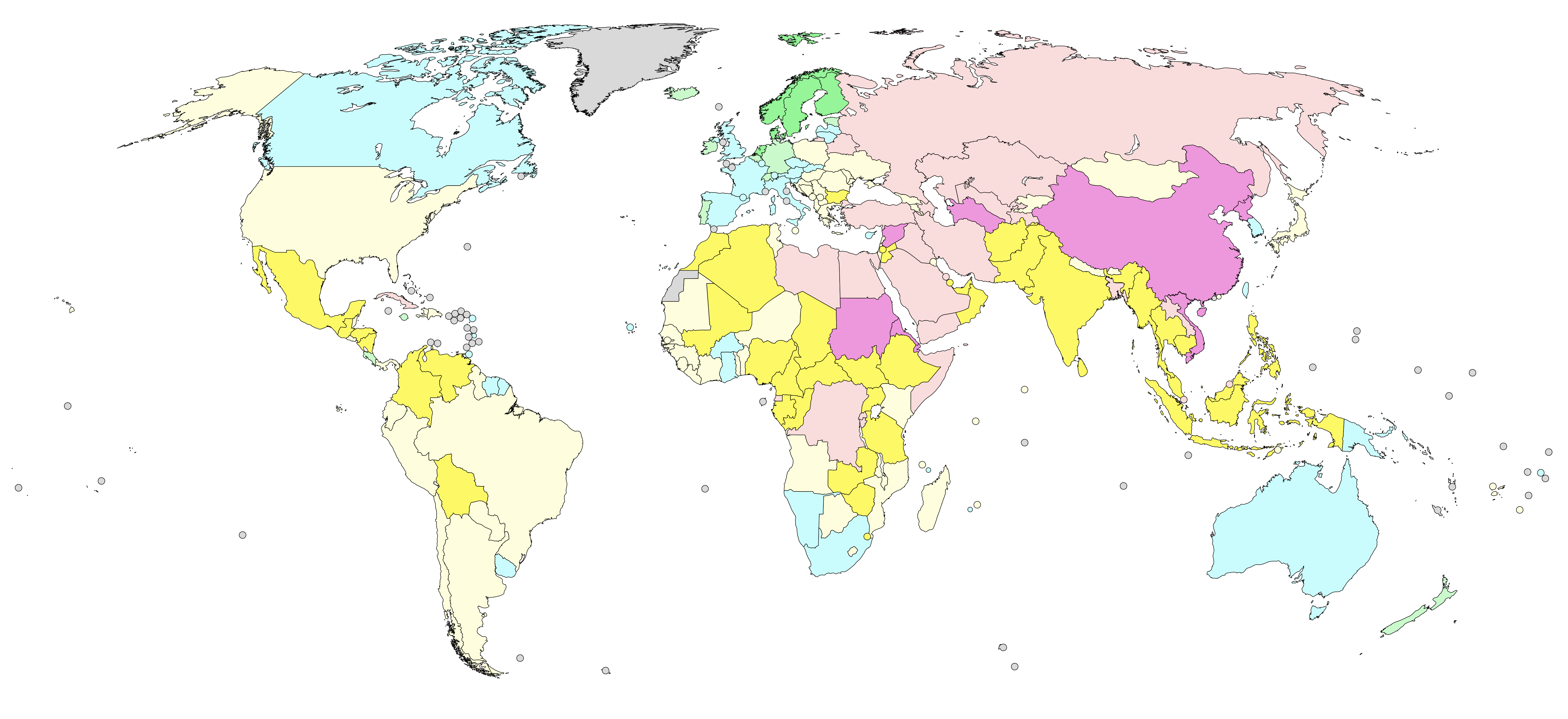 A choropleth map showing countries by their scores according to the 2019 Press Freedom Index in seven different colours. 70 Data unavailable